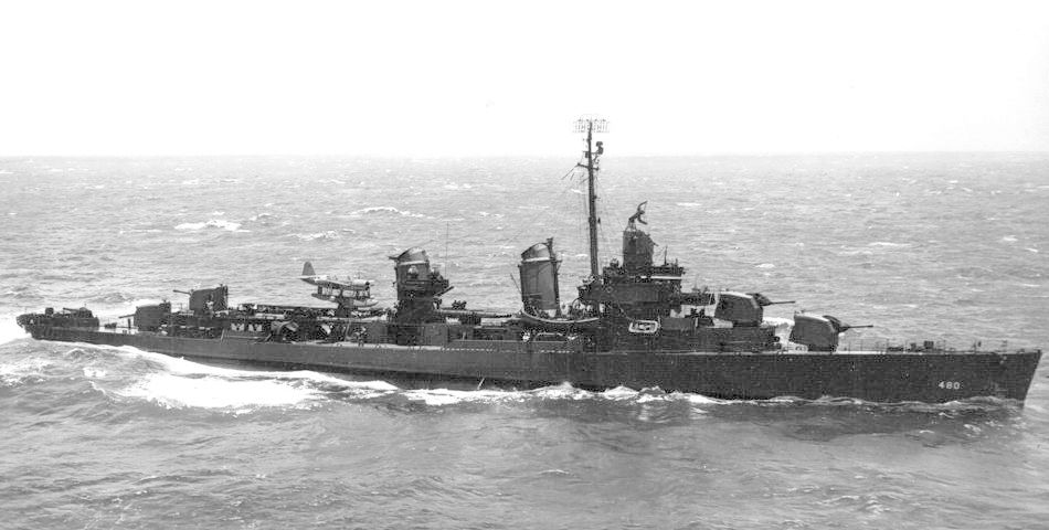 USS Halford, DD 480, 14 July 1943, with seaplane on catapult. Official Navy photo